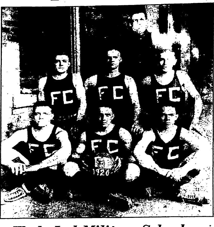 1920 Tennessee state prep-school basketball champions, Fitzgerald-Clarke Military Academy of Tullahoma. Wade is in back. front, from left: McDowell, Gracy and Felts; back: Smith, Bomar and Phillips.